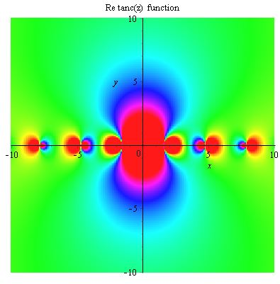 Tanc Re plot